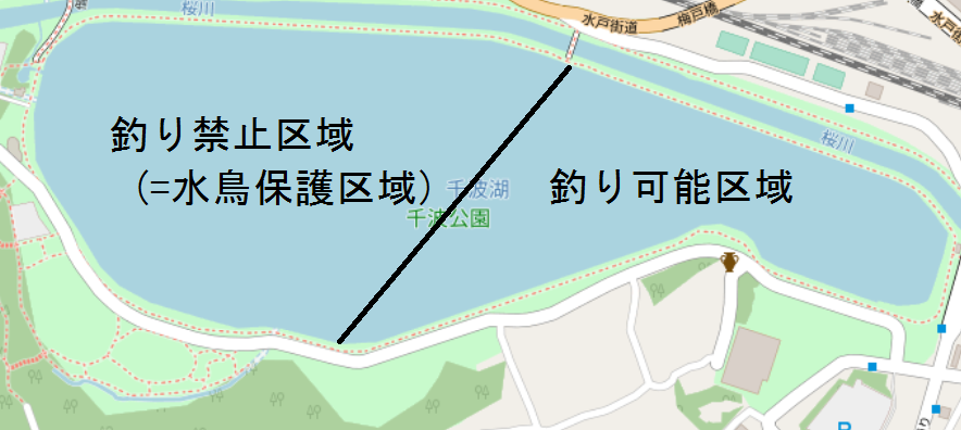 ake Senba ,Mito Ibaraki. Fishing prohibited / possible area map. Made by processing an Open street map. This map may be incomplete, and may contain errors. Don't rely solely on it for navigation.